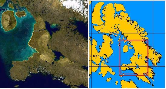 Based on capture from NASA This file is in the public domain because it was solely created by NASA. NASA copyright policy states that "NASA material is not protected by copyright unless noted". (See Template:PD-USGov, NASA copyright policy page or JPL Image Use Policy.) Warnings: Use of NASA logos, insignia and emblems are restricted per US law 14 CFR 1221. The NASA website hosts a large number of images from the Soviet/Russian space agency, and other non-American space agencies. These are not necessarily in the public domain. Materials based on Hubble Space Telescope data may be copyrighted if they are not explicitly produced by the STScI.[1] See also PD-Hubble and Cc-Hubble . The SOHO (ESA & NASA) joint project implies that all materials created by its probe are copyrighted and require permission for commercial non-educational use. [2] Images featured on the Astronomy Picture of the Day (APOD) web site may be copyrighted. [3] by Finlay McWalter. Based on Baffin.png created by online mapcreator, author not specified.